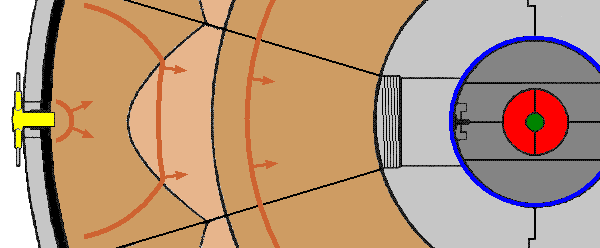 Fat Man Detonation Sequence